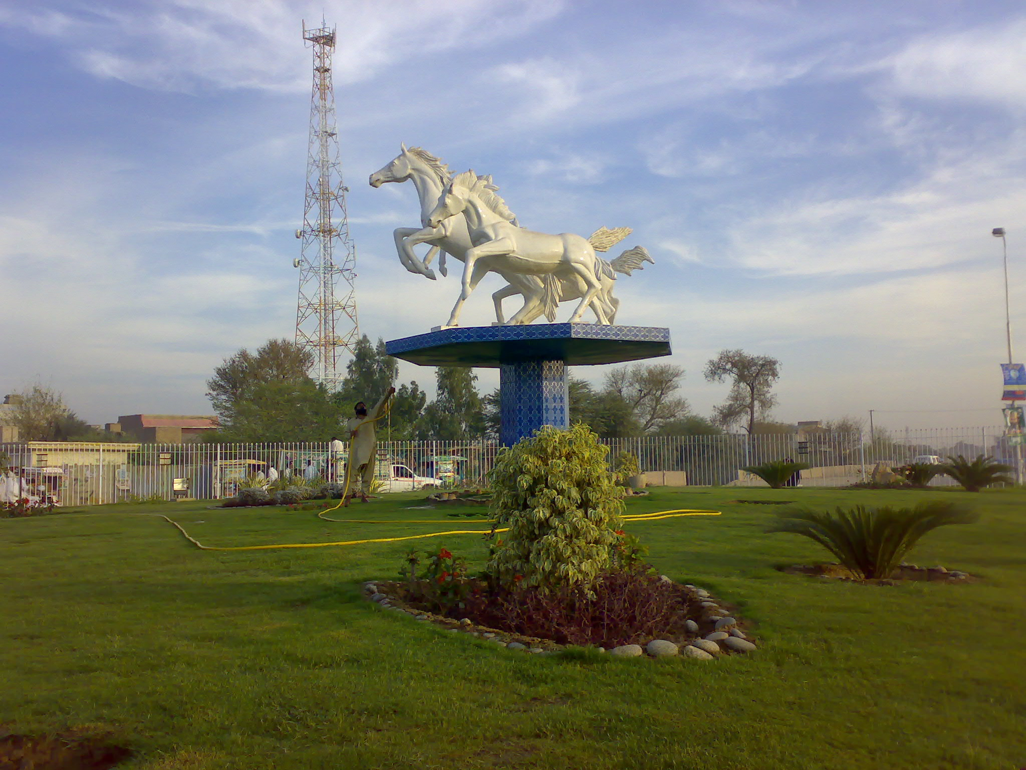 D.G.Khan